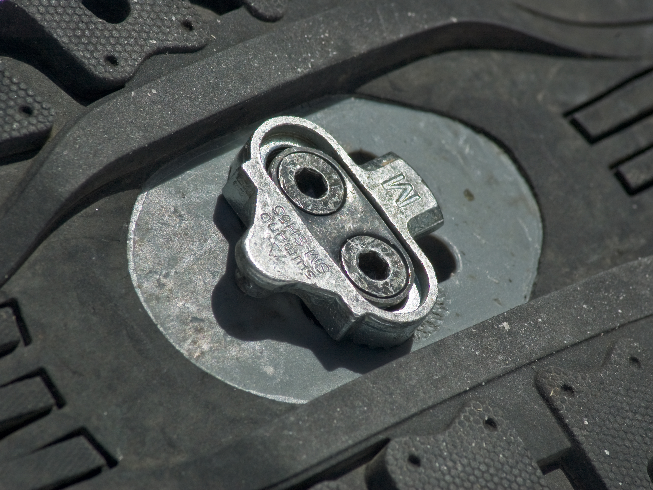 Shimano SH-56 SPD (Shimano Pedaling Dynamics) bicycle cleat attached to a Shimano MT31 cycling shoe.